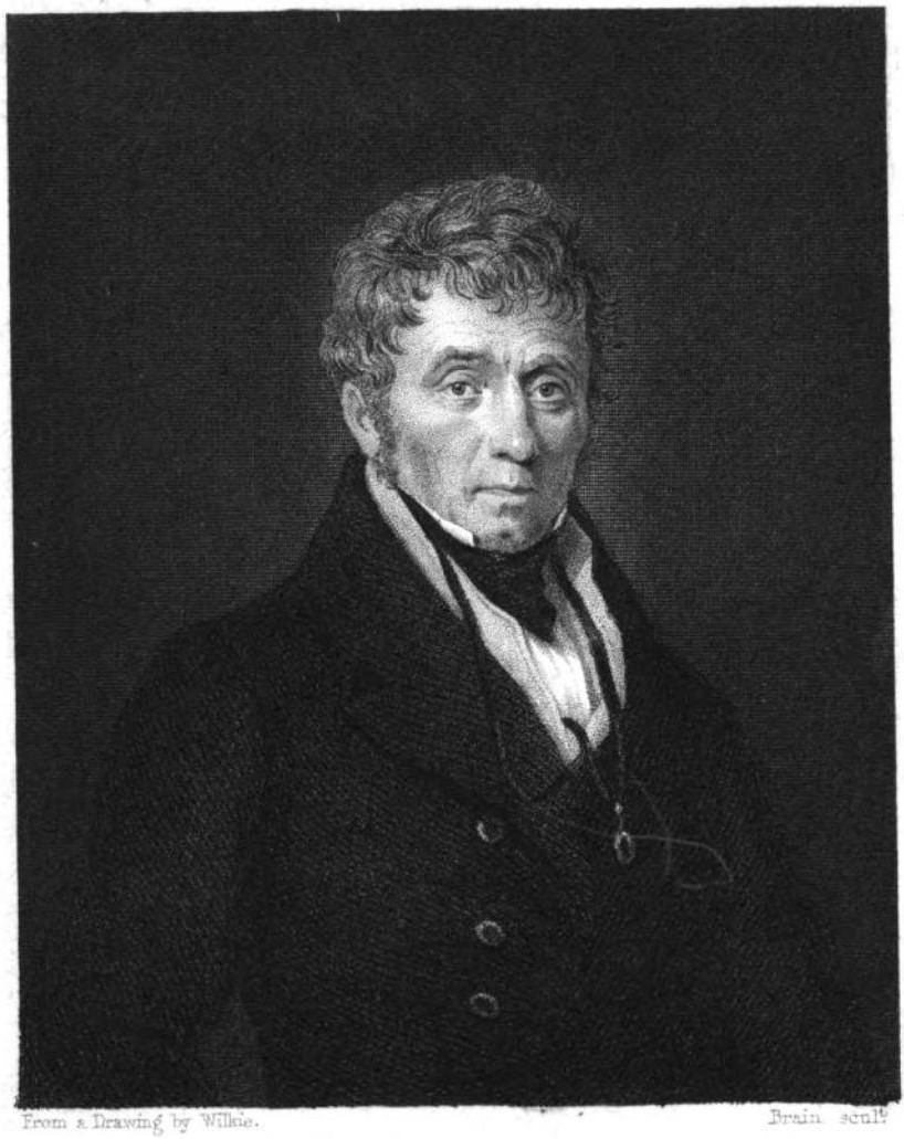 Robert Huish in Bees: Their Natural History and General Management (1844).